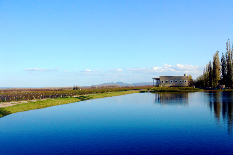 Algodon Wine Estates in San Rafael, Mendoza, Argentina. This is a photo of the boutique winery situated next to one of the estate’s reservoirs. You can see the Sierra Pintada Mountains in the distance.